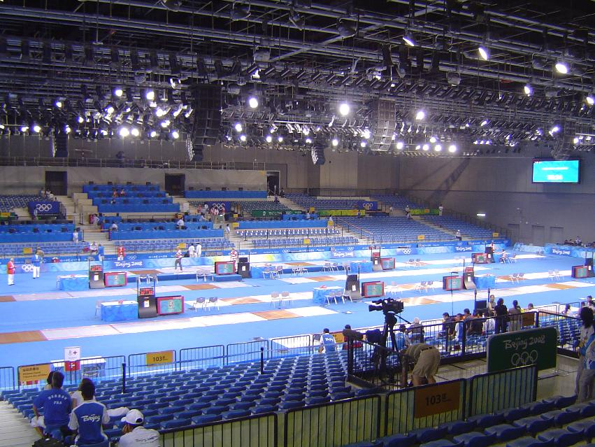 The Olympic Green Convention Center prepared for the fencing of the Modern pentathlon at the 2008 Summer Olympics.